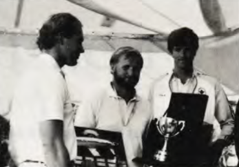 Theis Palm, Valdemar Bandolowski and Steve Calder - Soling Worlds 1984